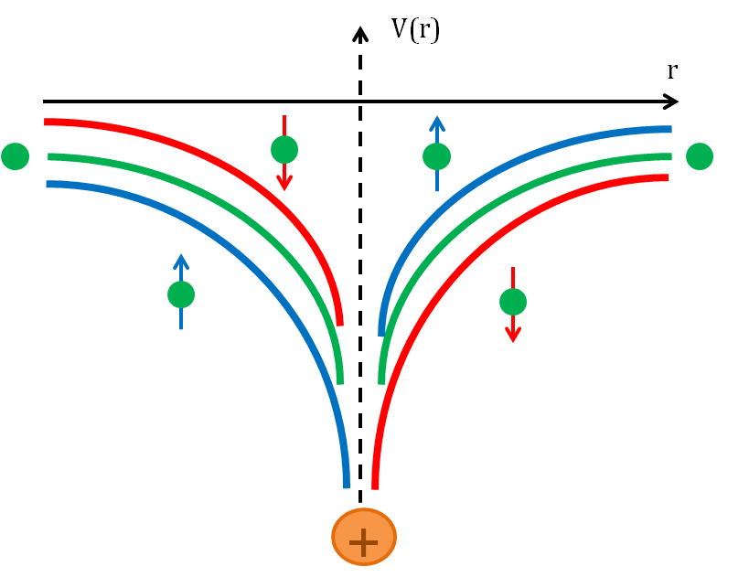 The Coulomb potential, result of the interaction of an electron with a charged nucleus, is shown in green. The modification due to spin-orbit coulping for spin up (blue) and spin down (red) electrons are shown.